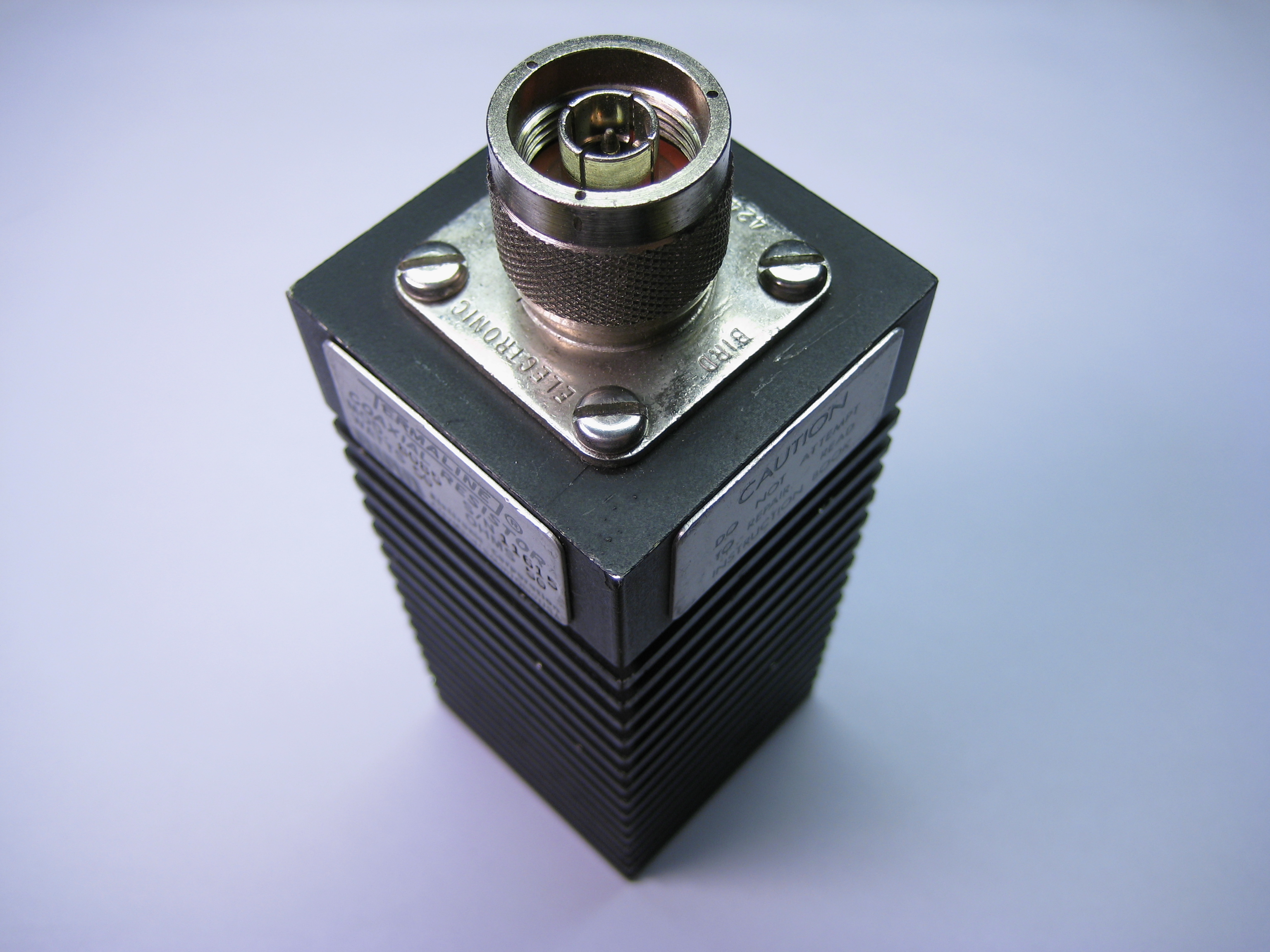 Dummy load